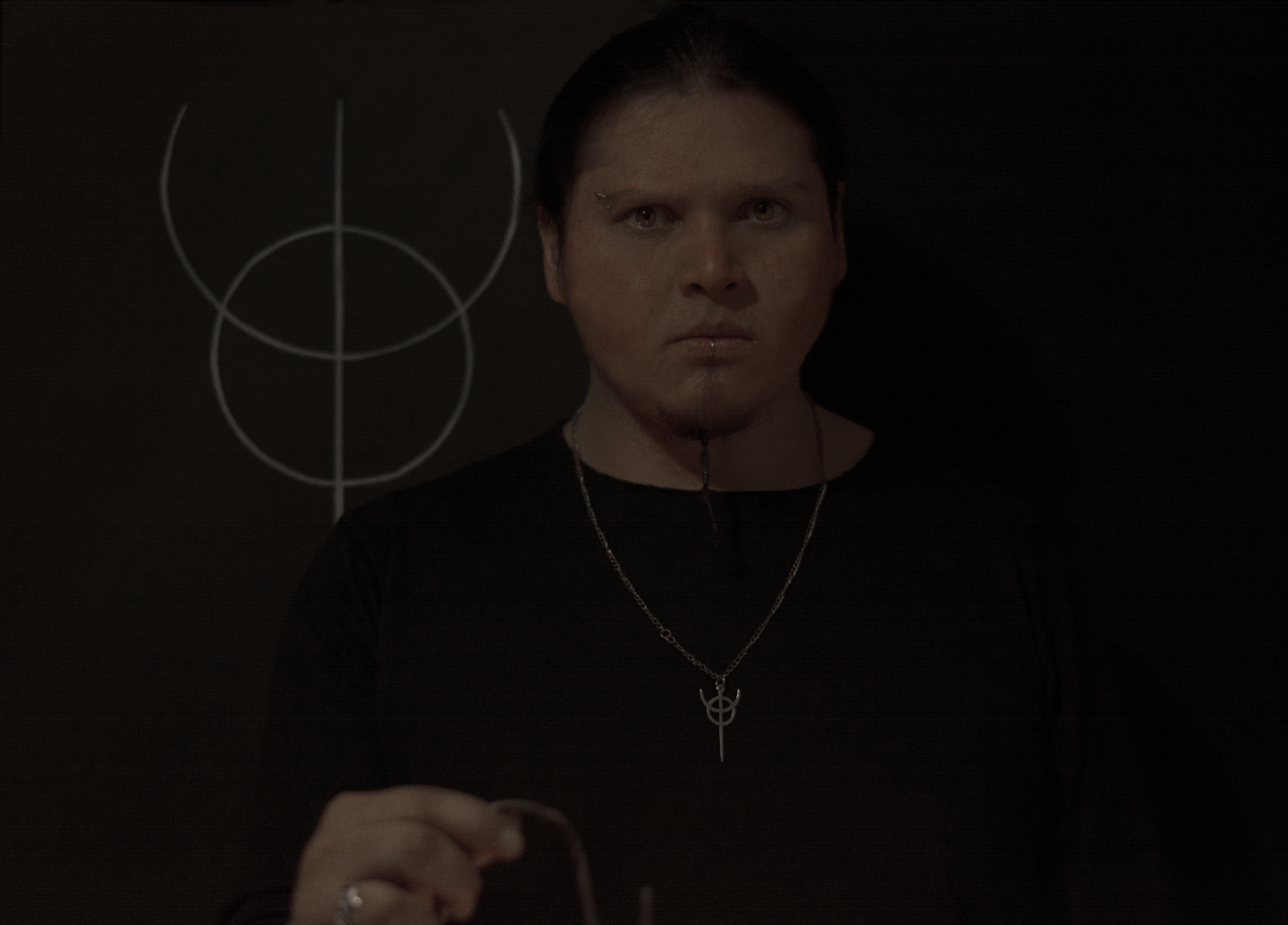 Photo session "1NU UN1" Jul 2015